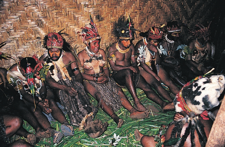 In the Turnim Het Karim Leg ceremony, young men and women get dressed up and go through a ceremony where they chant courship songs. As they sing, they shake their heads and cross legs with each other. After several hours they pair off and go into the gardens to have sex.